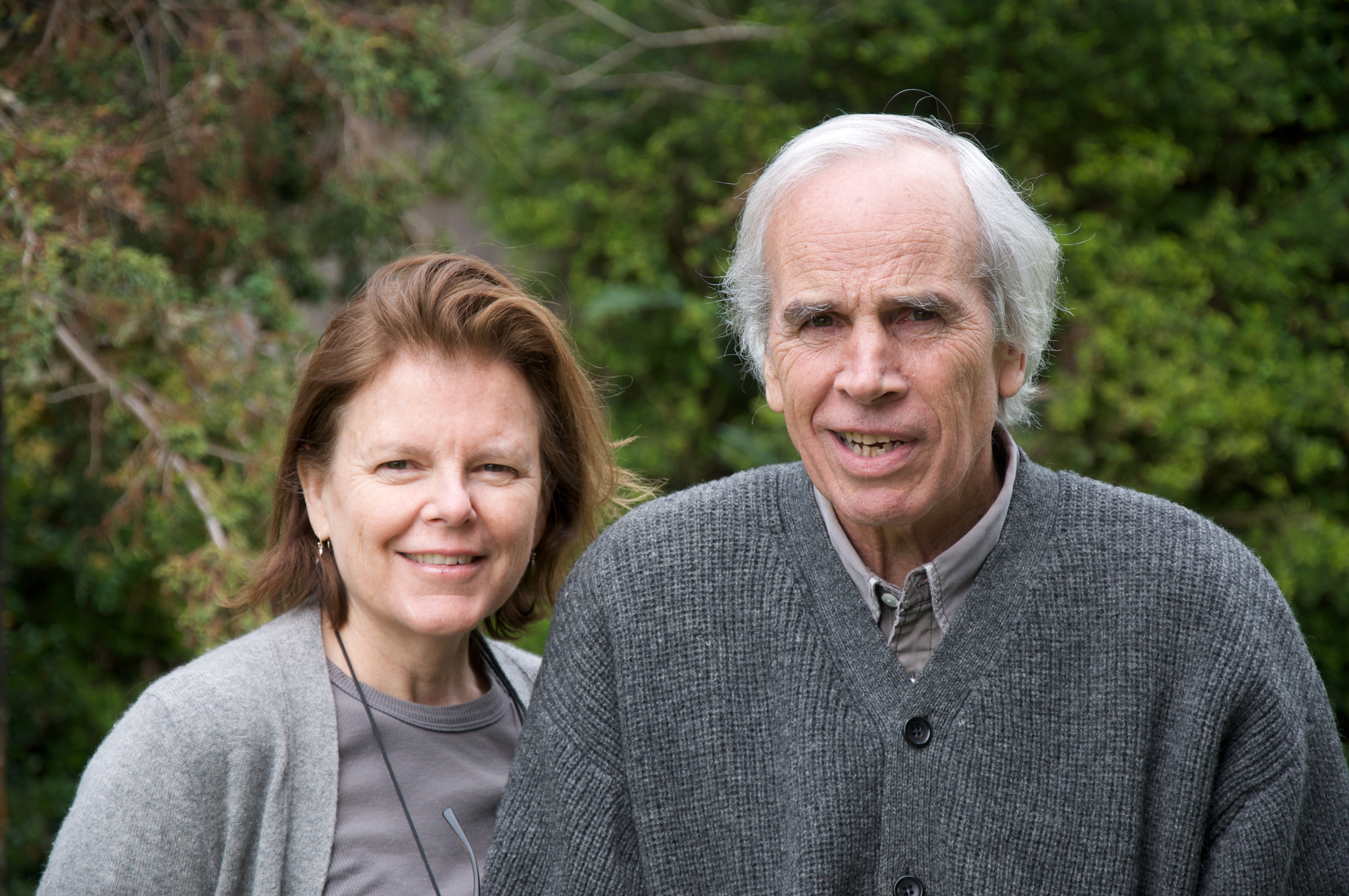 Douglas and Kris Tompkins